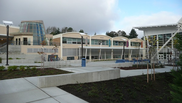 Renovated Chief Sealth International High School (CSIHS), view from south entry plaza